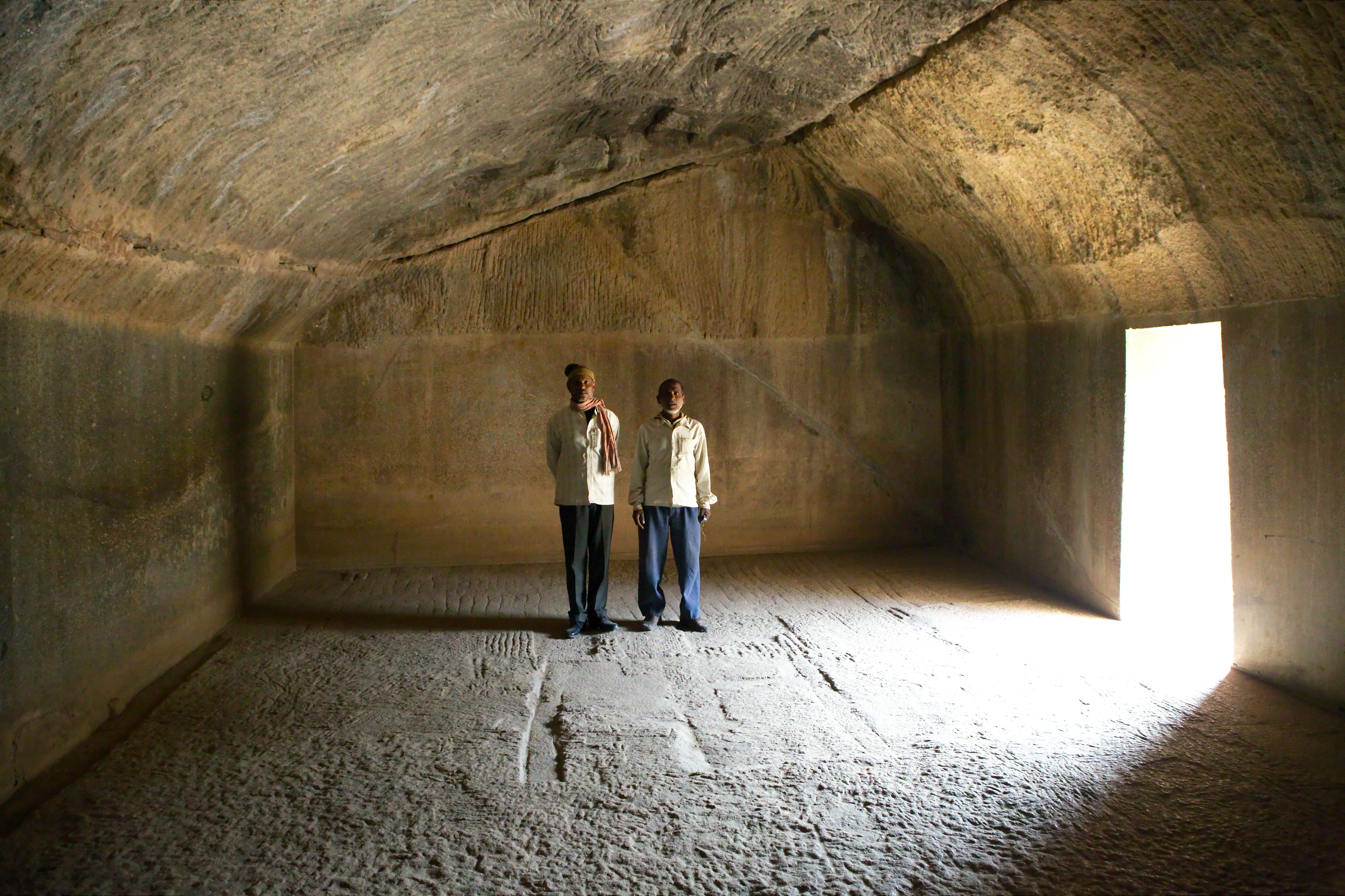 Barabar Caves inside Lomas Rishi